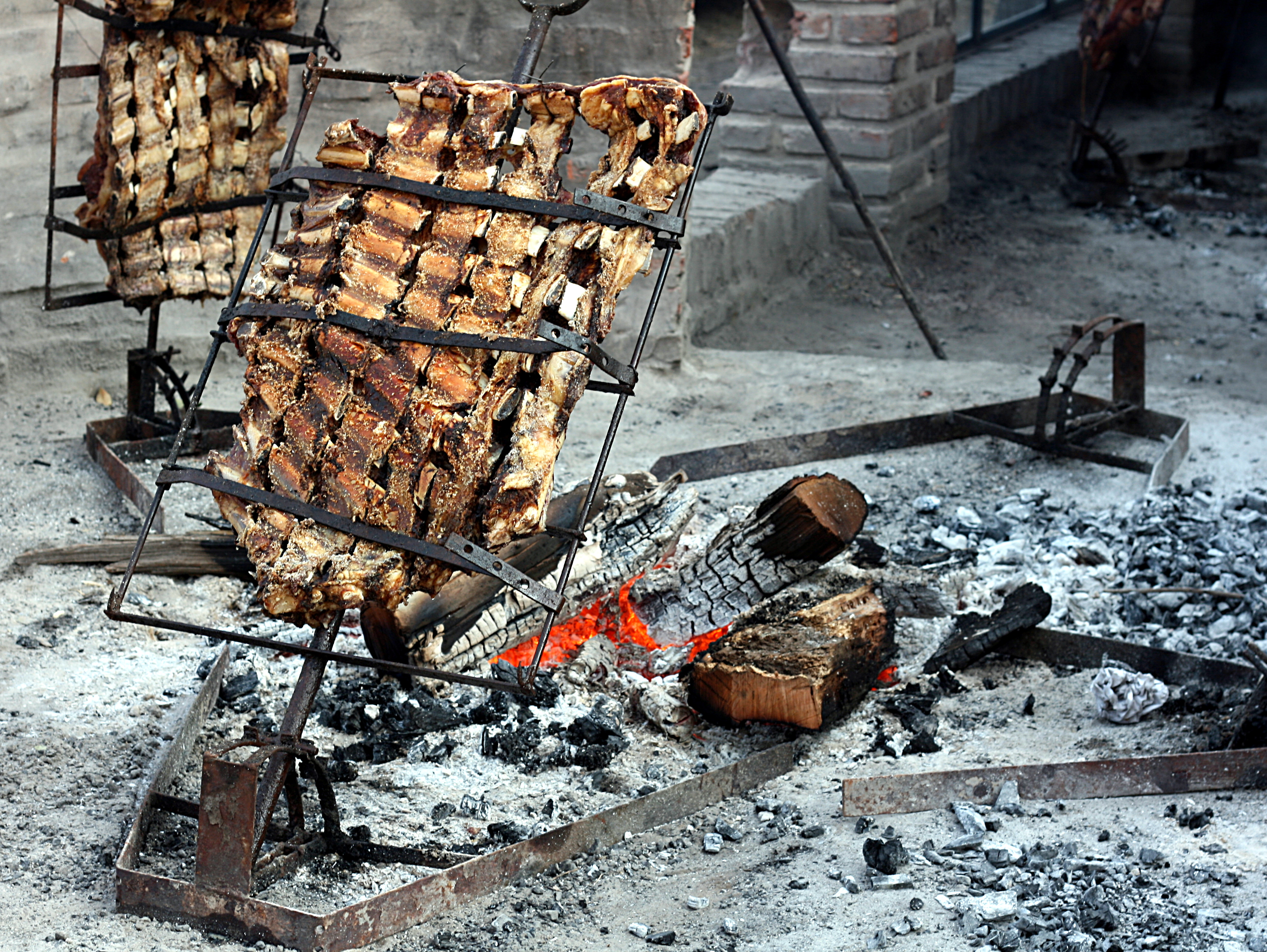 Typical Asado from Argentina being made.